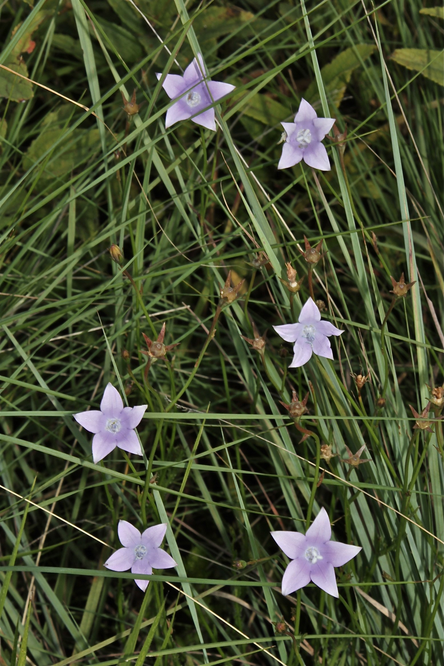 South Africa. Royal Natal NP